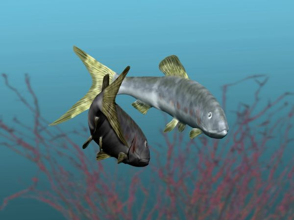 Luisichthys